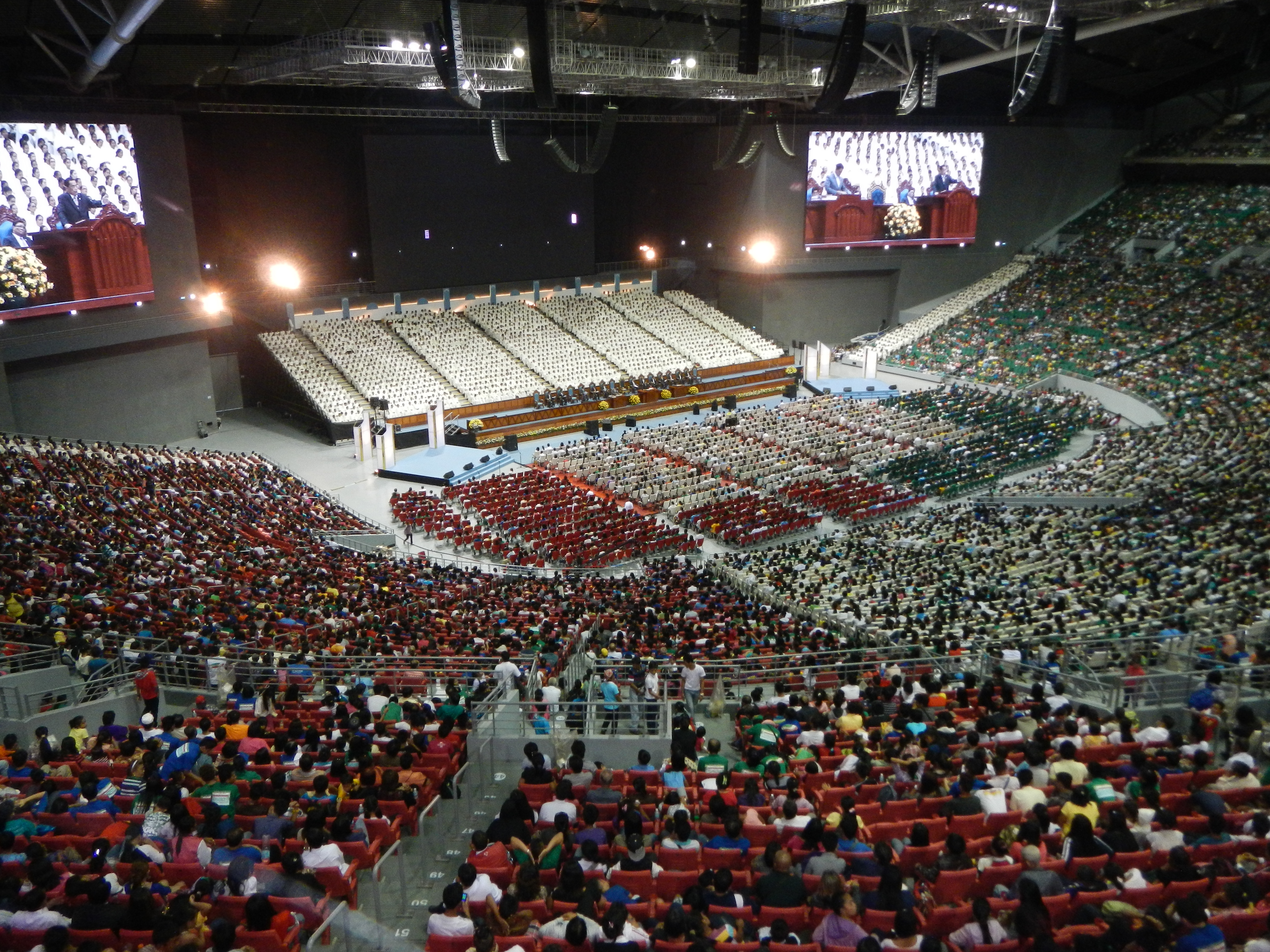 Lingap Pamamahayag sa Mamamayan Medical, Dental Mission of November 8, 2014 - Philippine Arena beside the Philippine Sports Stadium of the, and located in and part of the - Ciudad de Victoria, Iglesia Ni Cristo - 140-hectare tourism enterprise zone in Barangays Duhat, Igulot, Bolacan of Bocaue, Bulacan and Tabing Bakod or Santo Tomas and Mahabang Parang of Santa Maria, Bulacan - including therein being constructed are New Era University, New Era University Bocaue Campus & Eraño G. Manalo (EGM) Medical Center, an 11-storey modern hospital with 1000-bed capacity.